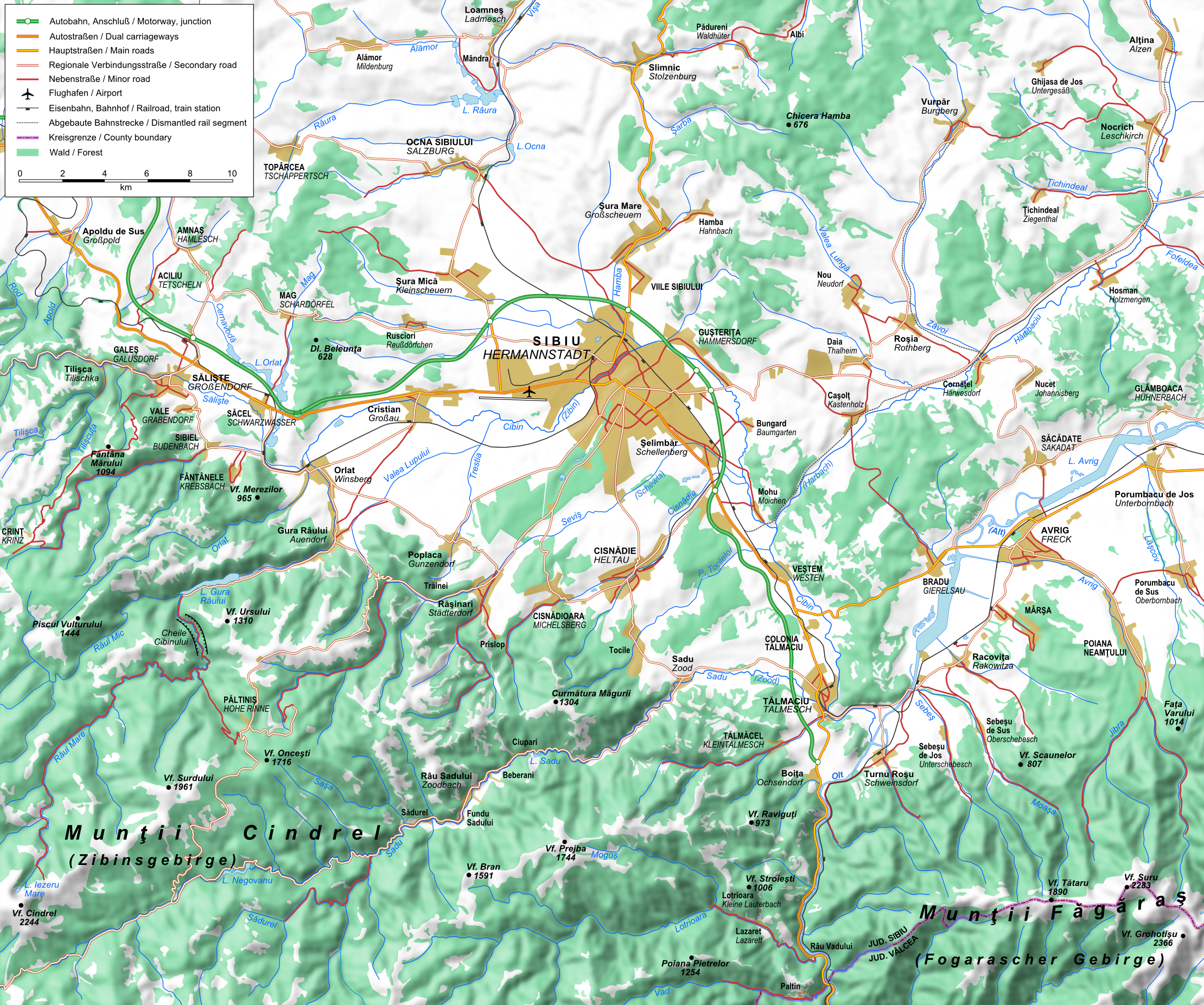 Topographic map of the area surrounding the city of Sibiu, Transylvania, Romania. Made with GRASS GIS and Inkscape from SRTM and LANDSAT ETM data. UTM projection, datum Wgs84. Additional references from